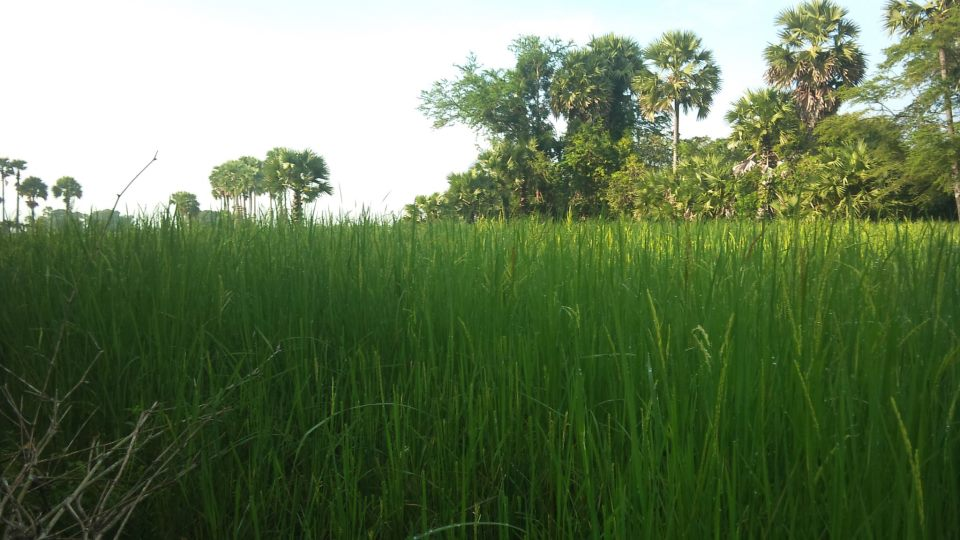 I took this photo when i was at countryside in Svay Rieng of Cambodia, It's a nice picture moreover i was really enjoy with the nature, fresh air and best views at there as well. I also saw the farmer collect the rice after it was ripe.